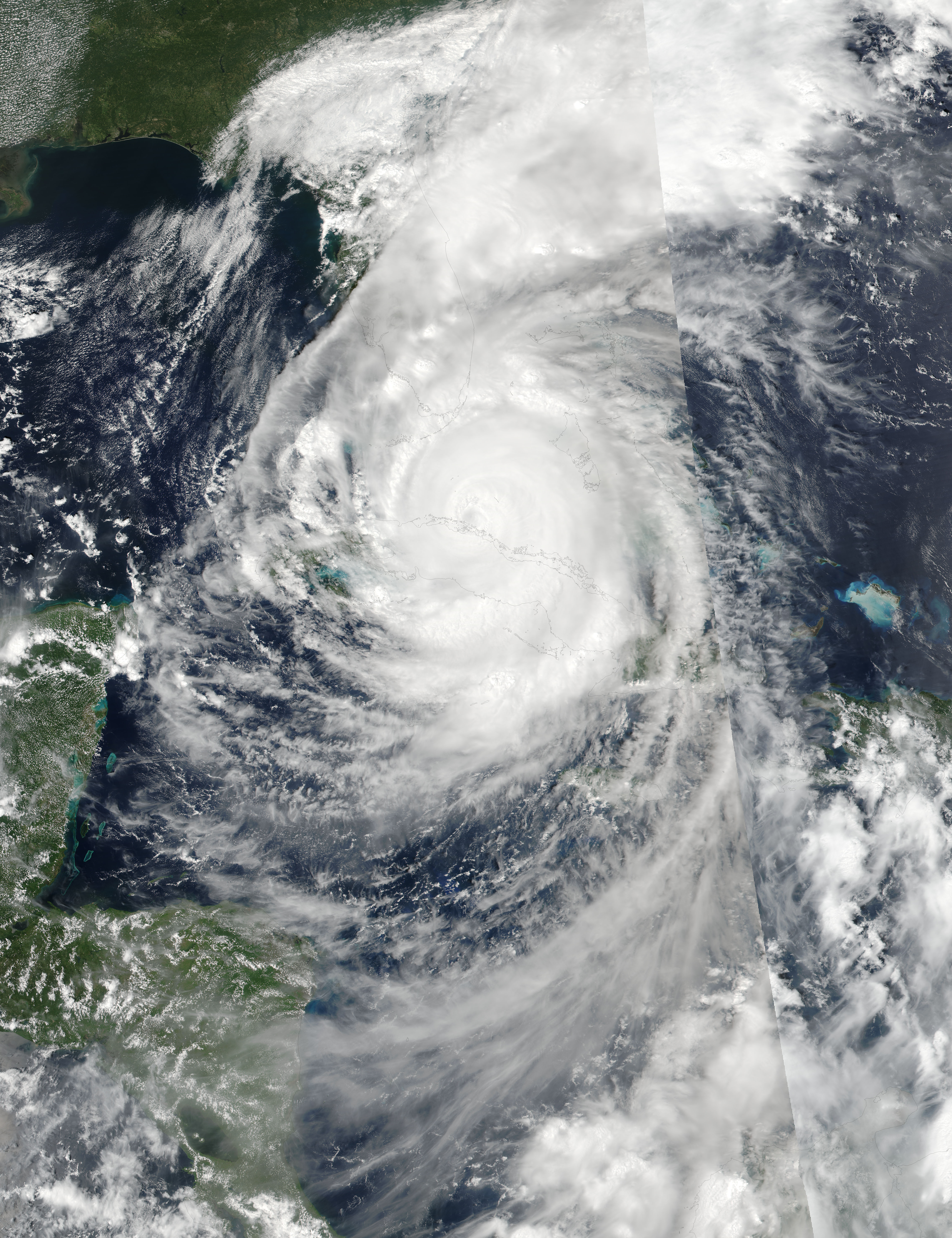 Hurricane Irma (11L) over Cuba and the Bahamas